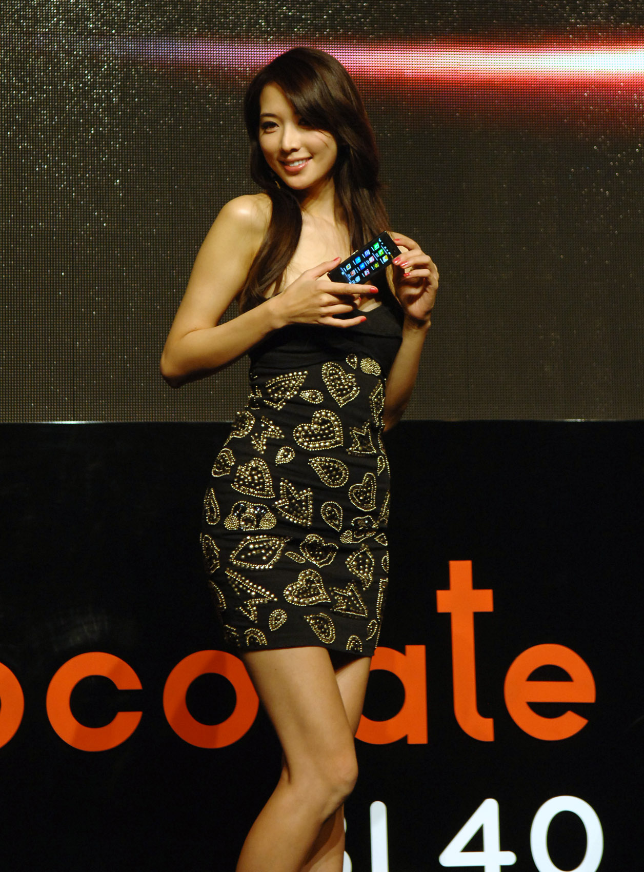 Lin Chi-ling (林志玲) at the LG New Chocolate Phone launching event for the BL40, 4 November 2009, Hong Kong